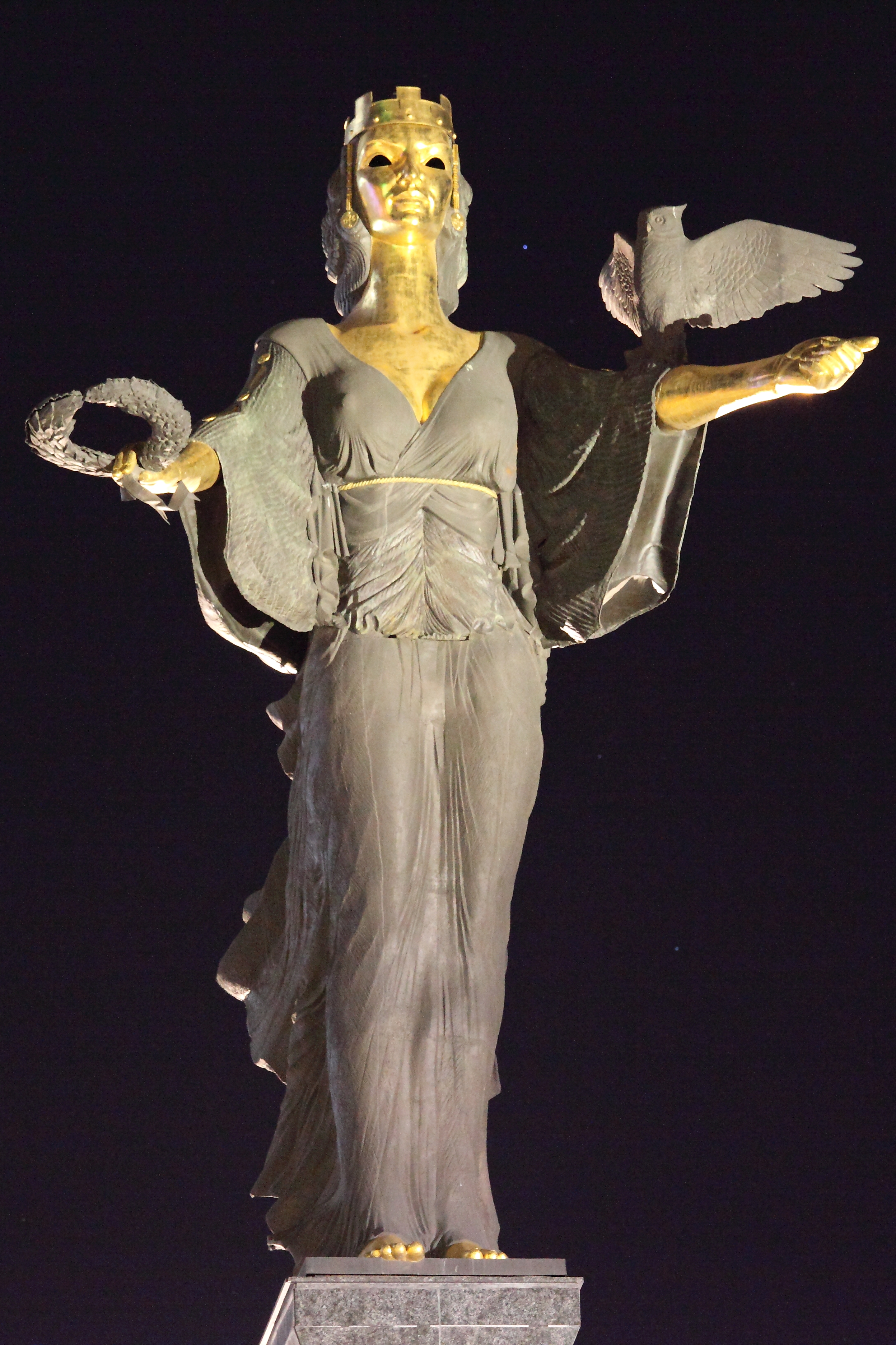 Sofia statue , Sofia at night